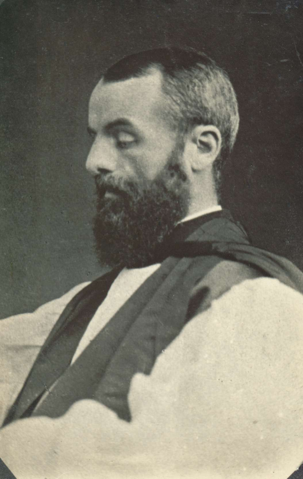 Portrait of John Martindale Speechly, Bishop of Travancore and Cochin